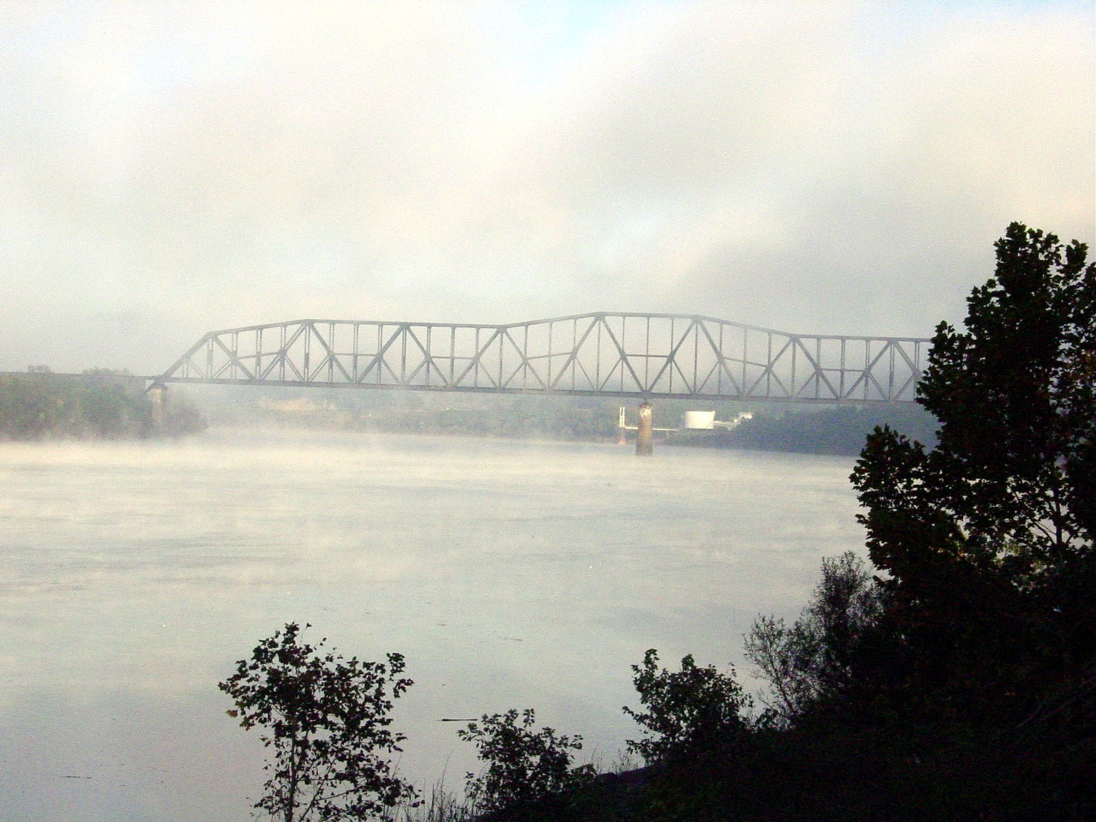 Vbofficial 20:11, 24 June 2007 (UTC), Sciotoville Bridge, October 2006